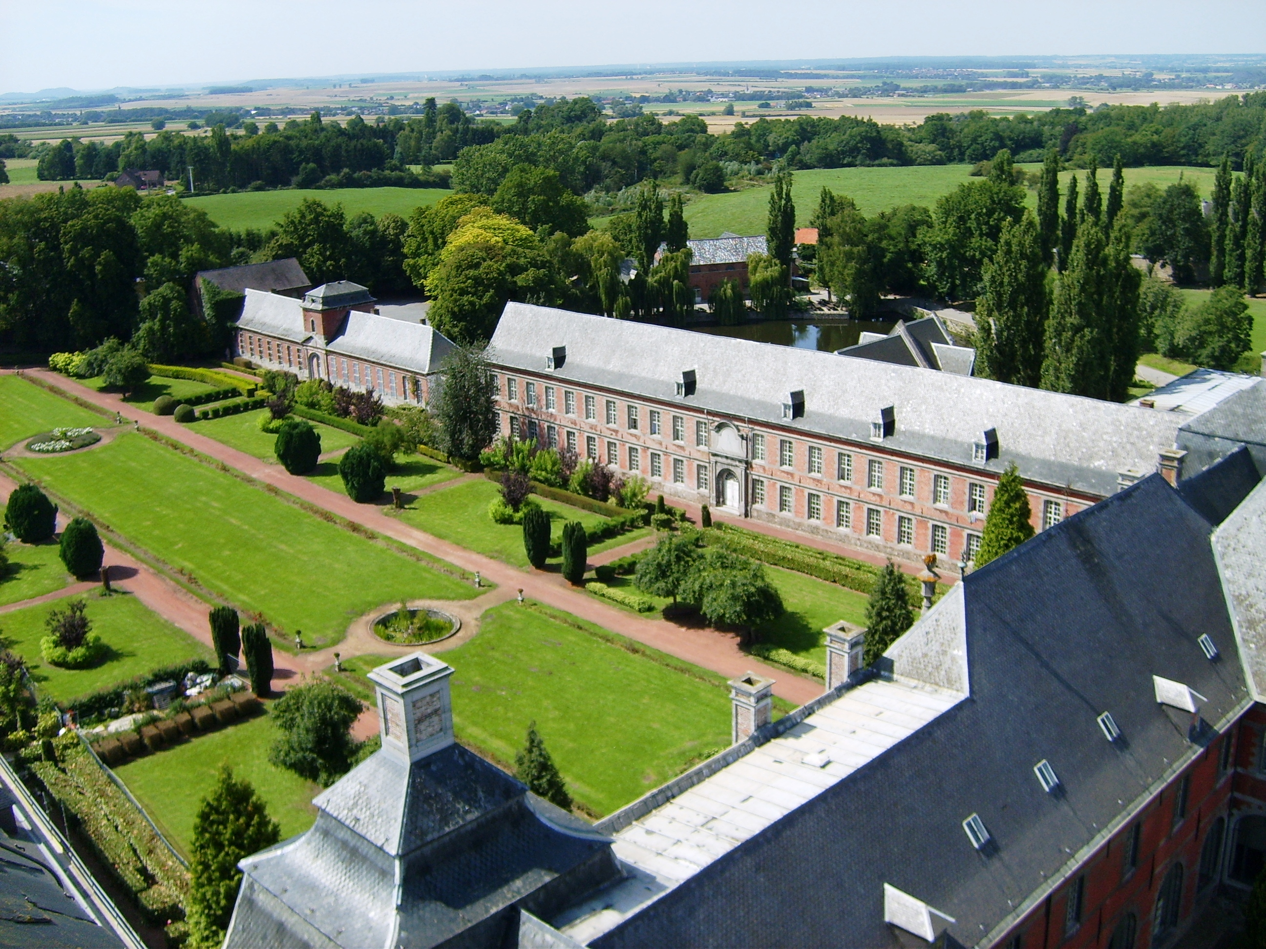 Vellereille-les-Brayeux (Belgium), overview of Bonne-Espérance Abbey (literally abbey of Good Hope). Photo taken from the top of the bell tower of the basilica. On the foreground, the botanical garden, the left wing of the building and outbuildings; on the background, the pond, the mill and a general overview of Estinnes countryside.